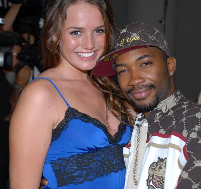 Tori Black, Tee Reel at Erotic Film Festival September 16, 2007